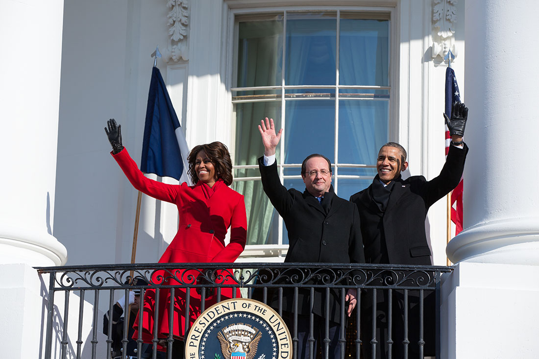 French President François Hollande with U.S. President Barack Obama and First Lady Michelle Obama during the official state visit of Hollande at White House, Washington D.C., USA.